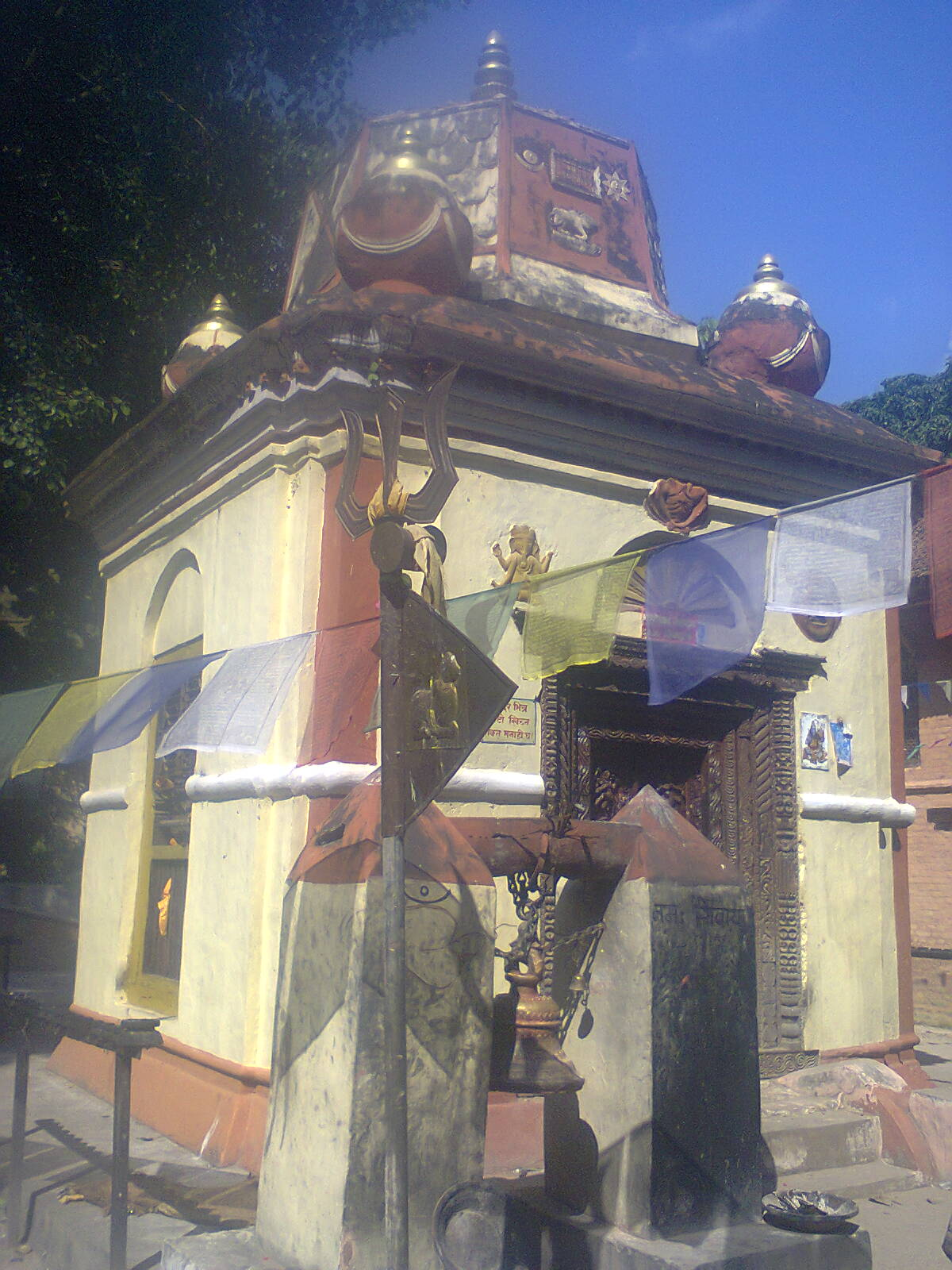 कुशेश्वर महादेव मन्दिर